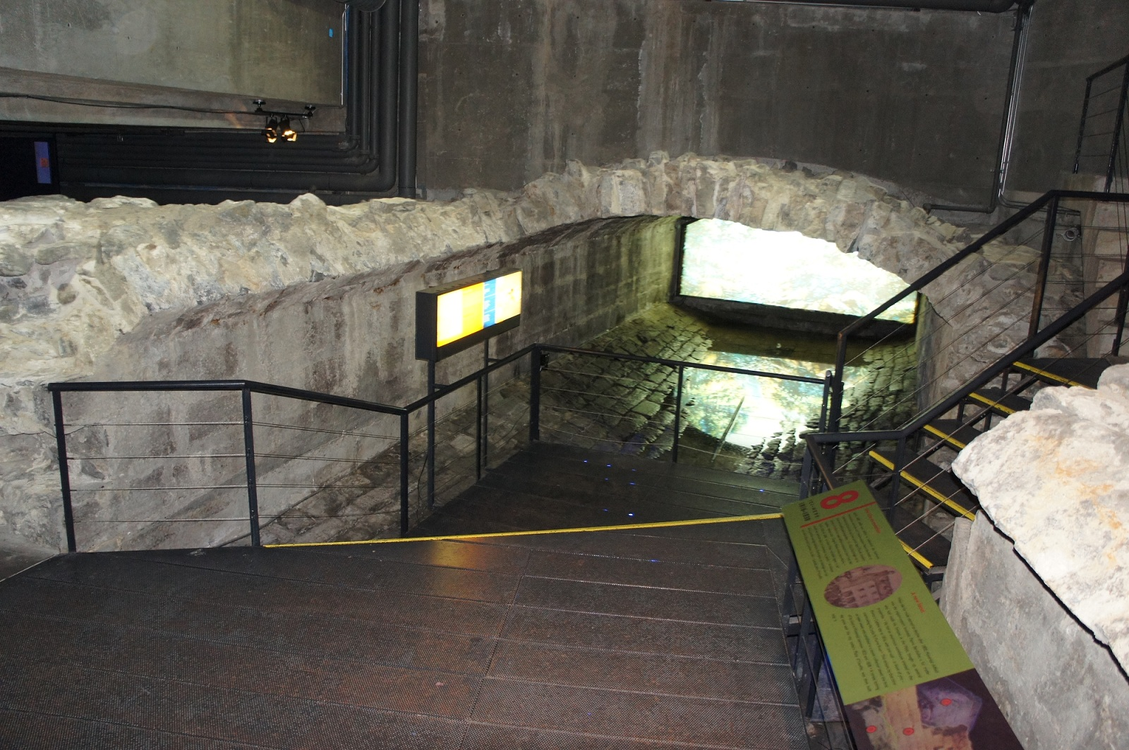 Collector sewer William underneath the Montreal Museum of History and Archaeology Pointe-à-Callière ( birth place of Montreal and a recognized national historical and archaeological site). This stone built sewer is also the ancient river bed of the little Saint-Pierre river and its estuary before being canalized around 1832